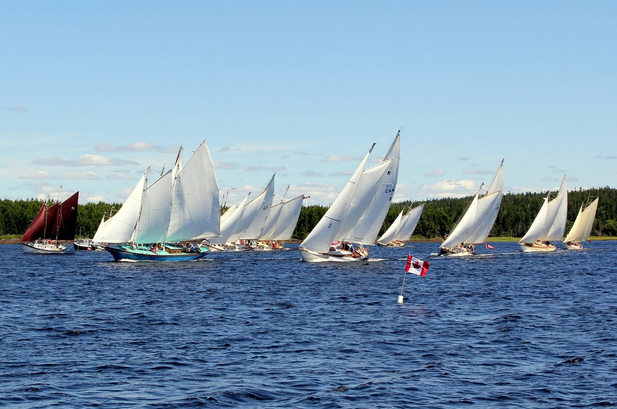 2013 Schooner Association Race Week Riverport, Nova Scotia